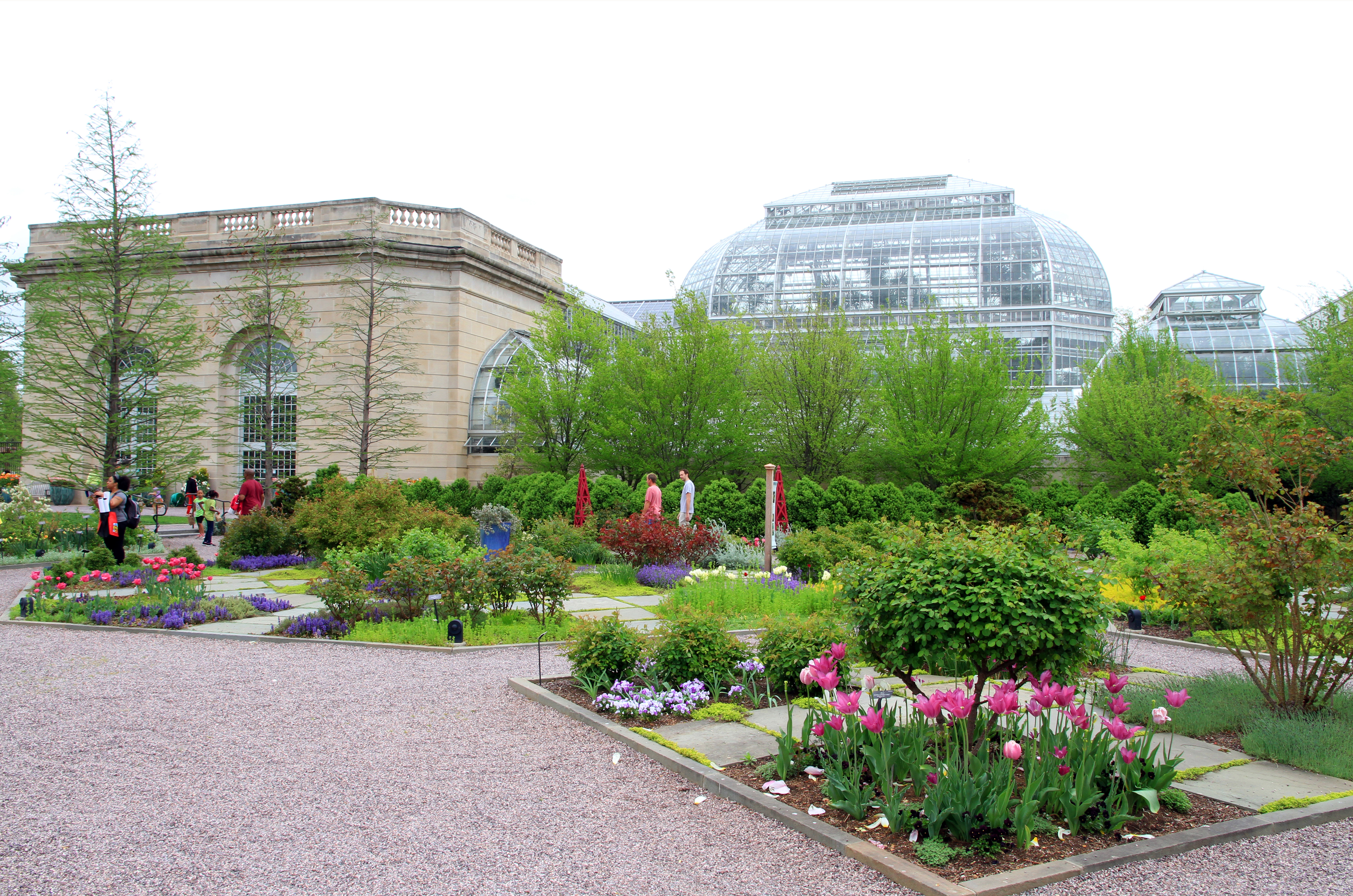 United States Botanic Garden